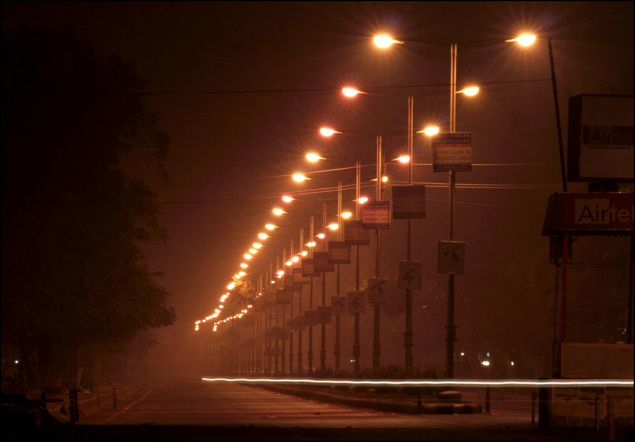 Beerchand Patel marg from Chanakya towards Income tax roundabout in Patna, BR, IN